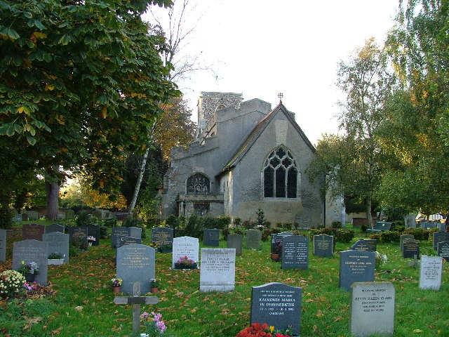 Parish Church of St Peter - Church End Arlesey. Tucked away at the end of Arlesey (which according to local legend, is the longest village in the UK). This claim can be checked using Google if you like - it seems not to be true. The church is a bit run down and has some old wooden crosses in the graveyard.